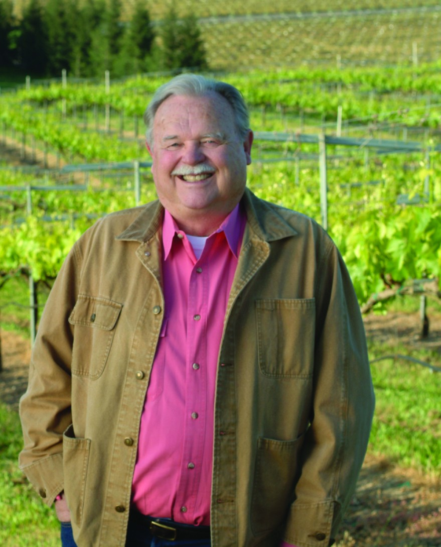 Cecil De Loach stands in front of grapes he planted on the Los Amigos Ranch in Healdsburg, CA